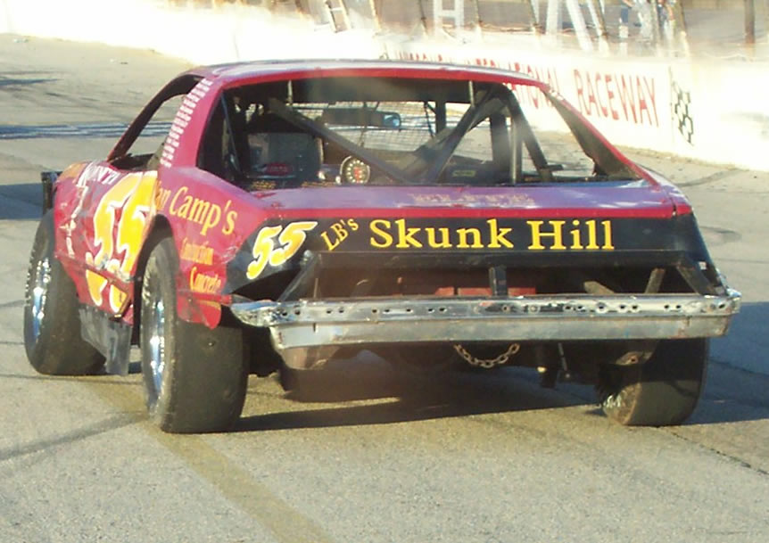 Figure 8 car for 2006 Wisconsin International Raceway track champion Donald Van Camp near Kaukauna, Wisconsin, United States.